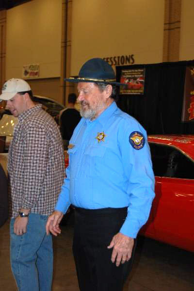 Sonny Shroyer signing autographs at the 2009 World of Wheels in Chattanooga